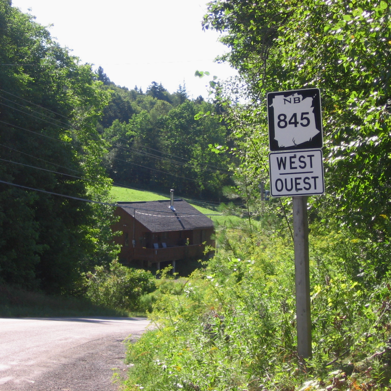 Self made photo to illustrate New Brunswick Route 845. Cropped and adjusted for contrast.